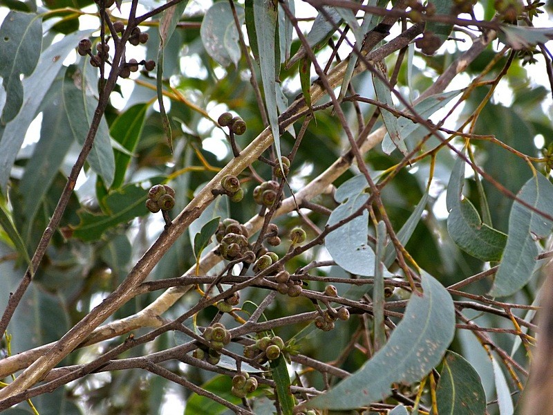 Eucalyptus agglomerata foliage and fruit, near Brogo, New South Wales